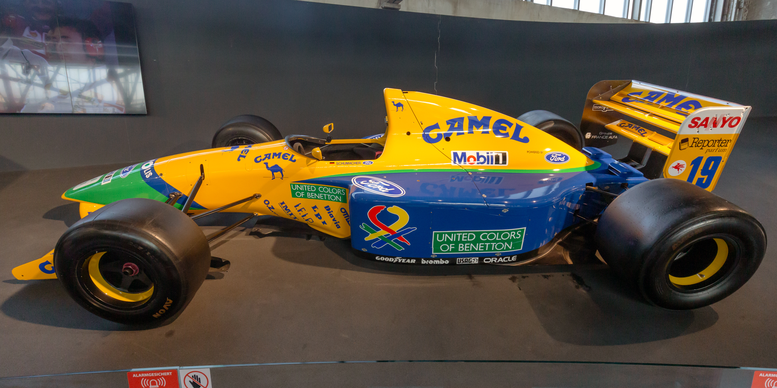 Michael Schumacher Private Collection: Benetton B191B (chassis 06) of Michael Schumacher